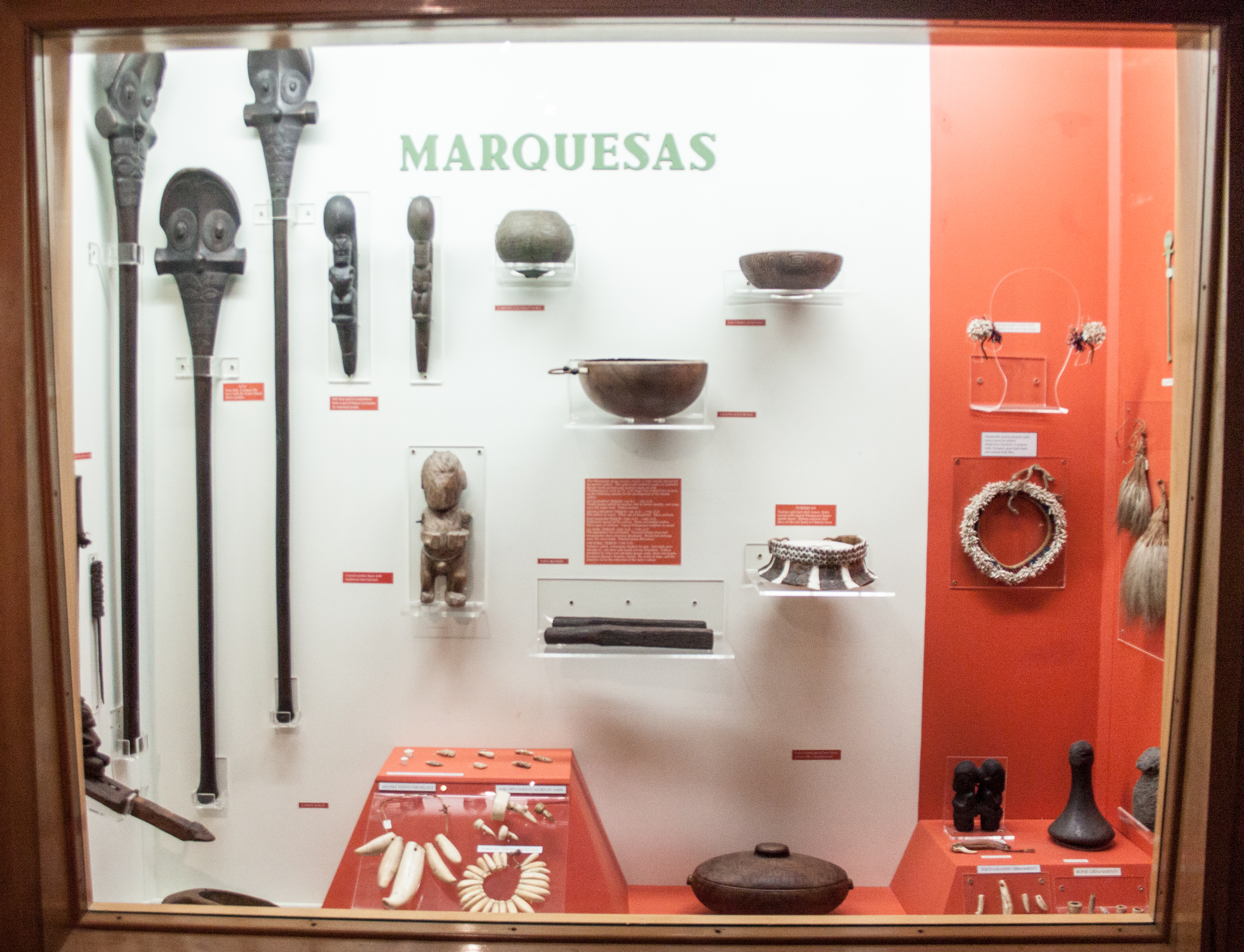 Display of objects from Marquesas islands